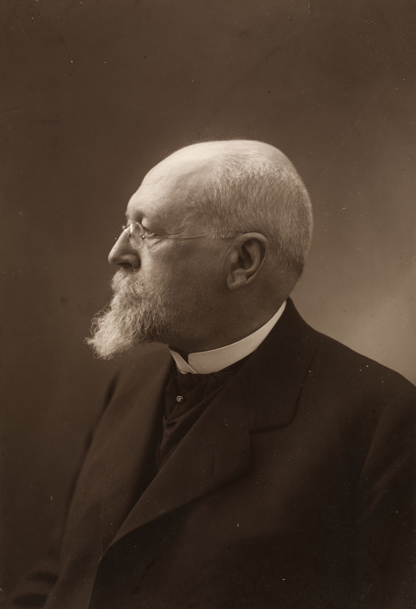 Norwegian pathologist Fredrik Georg Gade